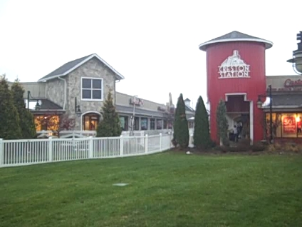 Lodi Station Outlets